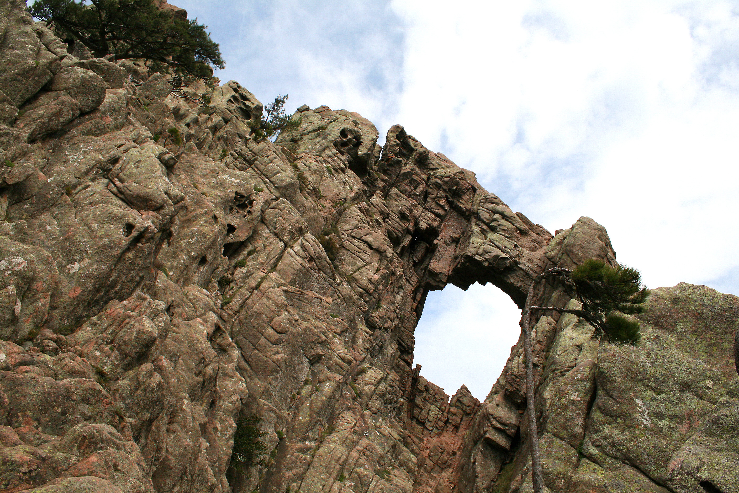 Zonza France (Corse-du-Sud), le «Trou de la Bombe». Corsu: Zonza Francia (Corsica Sutanna), u «Tafonu di u Cumpuleddu».